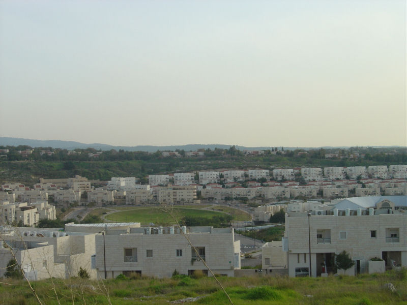 This file was transfered from . The original file description was: Modi'in and Re'ut (On the hill)